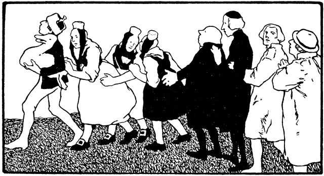 Illustration by Otto Ubbelohde to the fairy tale Golden Goose